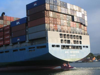 Rear-view of MOL Enterprise cargo ship leaving San Pedro Harbor San Pedro, United States Taken with Canon digital camera from Catalina shuttle boat, 27 June 2004 19:48 Pacific Time IMO Number: 9261748 Callsign: HPTF Length: 293 m Beam: 32 m